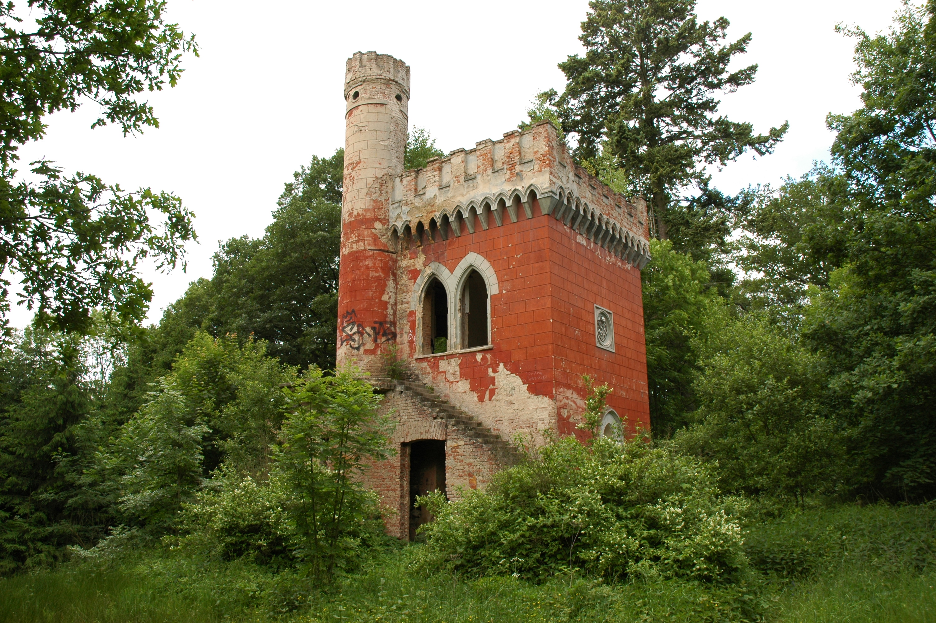 Hunting lodge in Dobřenice, Hradec Králové District, Czech Republic.